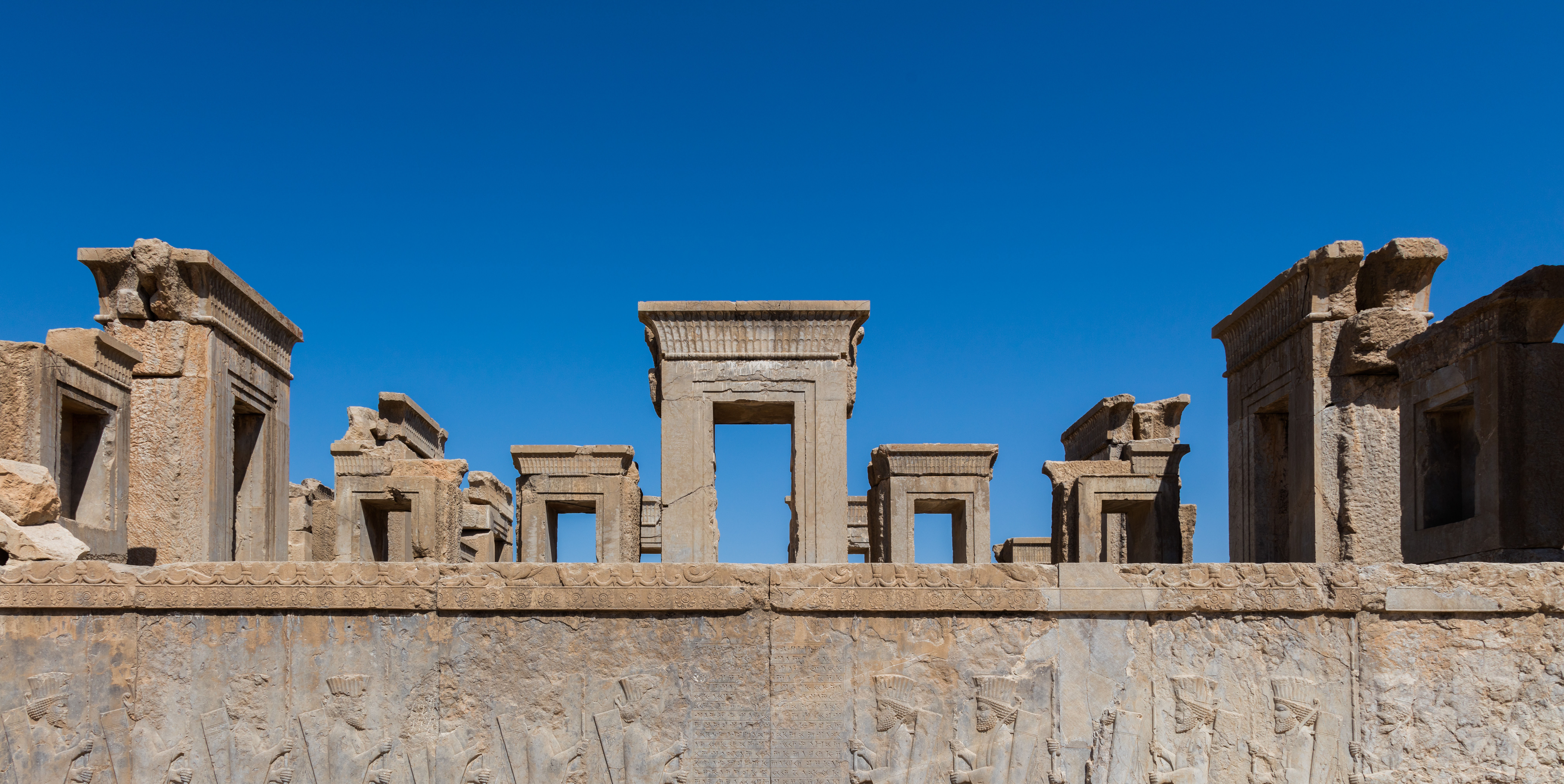 Persepolis, Iran